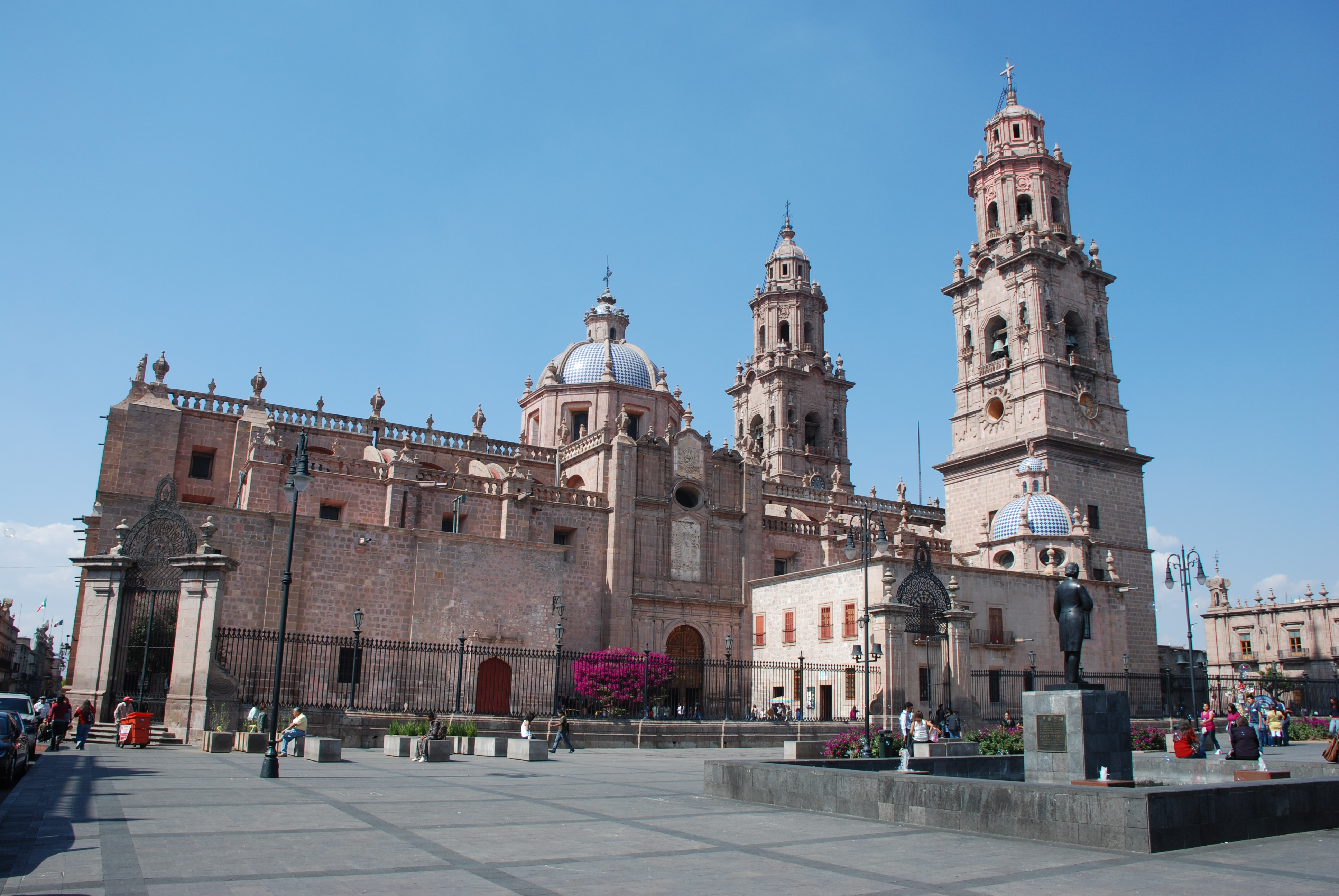 Morelia Cathedral, Morelia, Michoacan, Mexico